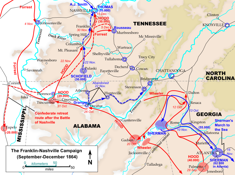 Hood's campaign in Tennessee, October-December 1864